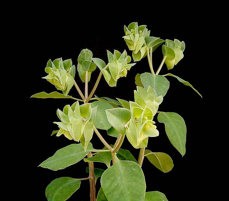 Euphorbia psammophila